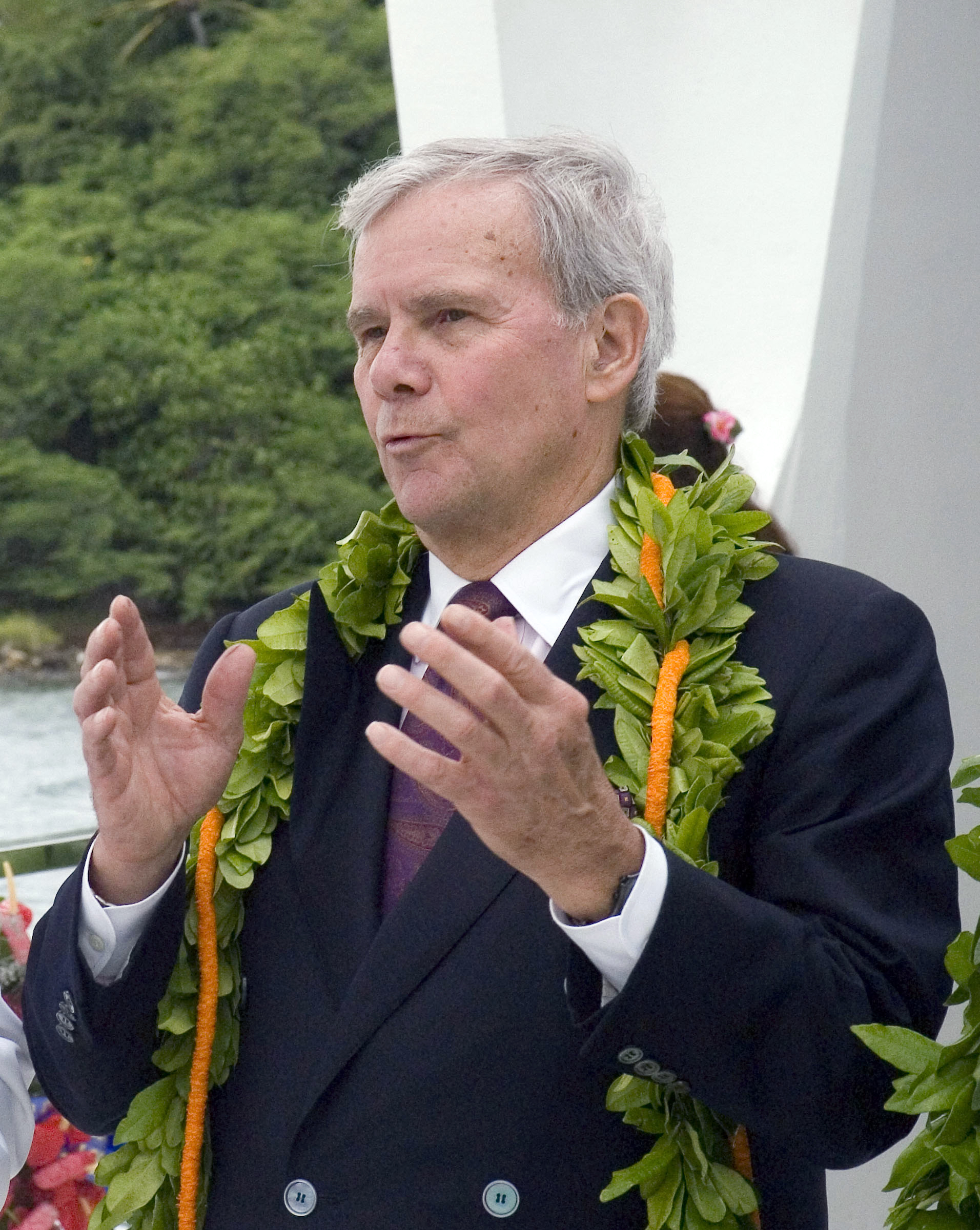 061207-N-4856G-254 Pearl Harbor, Hawaii - Tom Brokaw speaks of the events and history of the Attack on Pearl Harbor. Over 3,000 Pearl Harbor survivors and guest took part in a joint U.S. Navy/National Park Service ceremony commemorating the 65th Anniversary of the attack. More than 1,500 Pearl Harbor survivors, their families and friends from around the nation along with 2,000 distinguished guests and the general public took part in this annual observance.